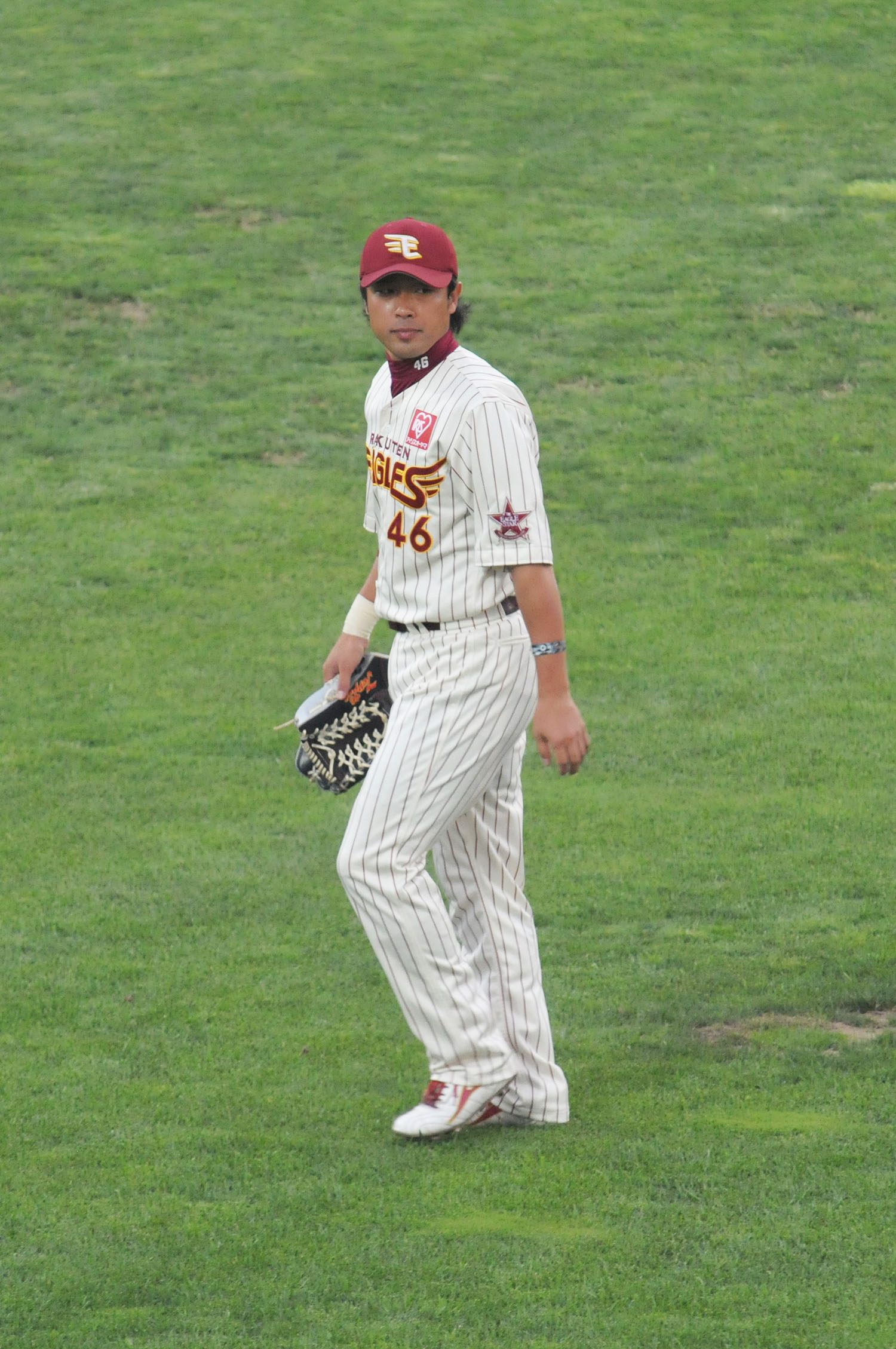 Teppei Tsuchiya, outfielder of the Tohoku Rakuten Golden Eagles, at Akita Prefectural Baseball Stadium.